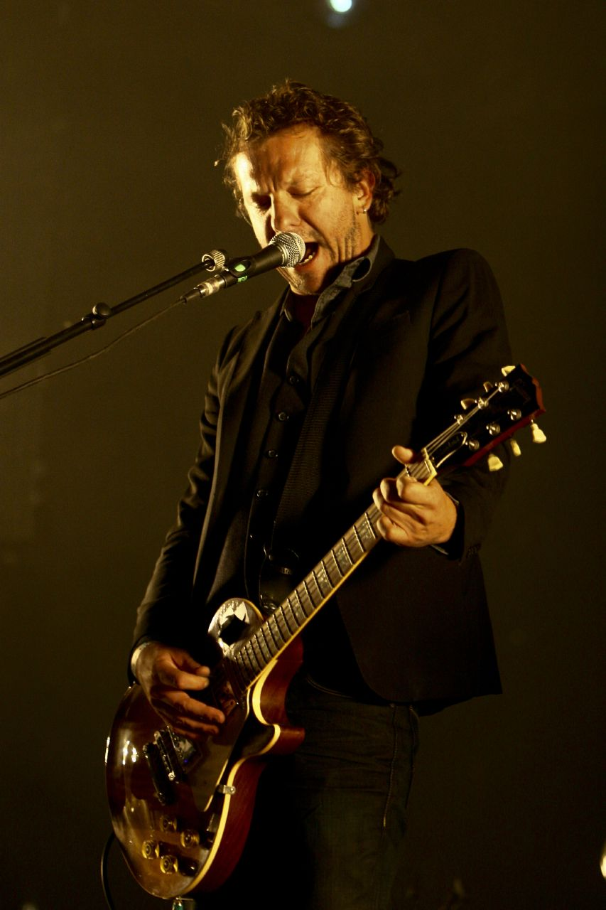 Deus at the Eurockéennes 2008